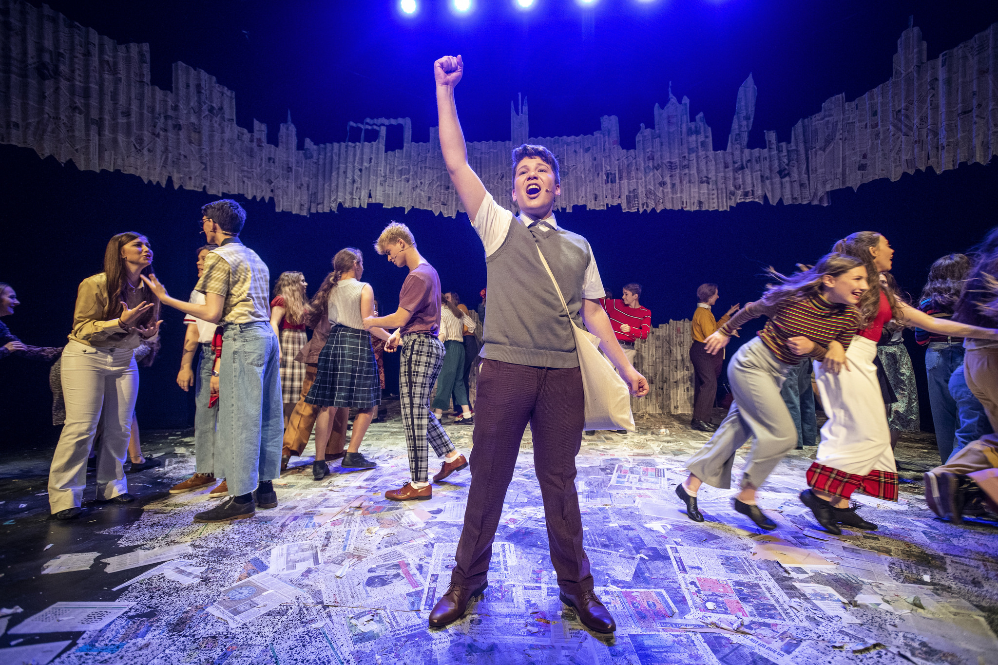 Paperboy at the Lyric Theatre Belfast July 2018